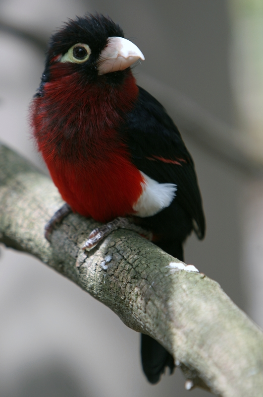 Double-toothed Barbet; an adult at San Diego Zoo, California, USA.